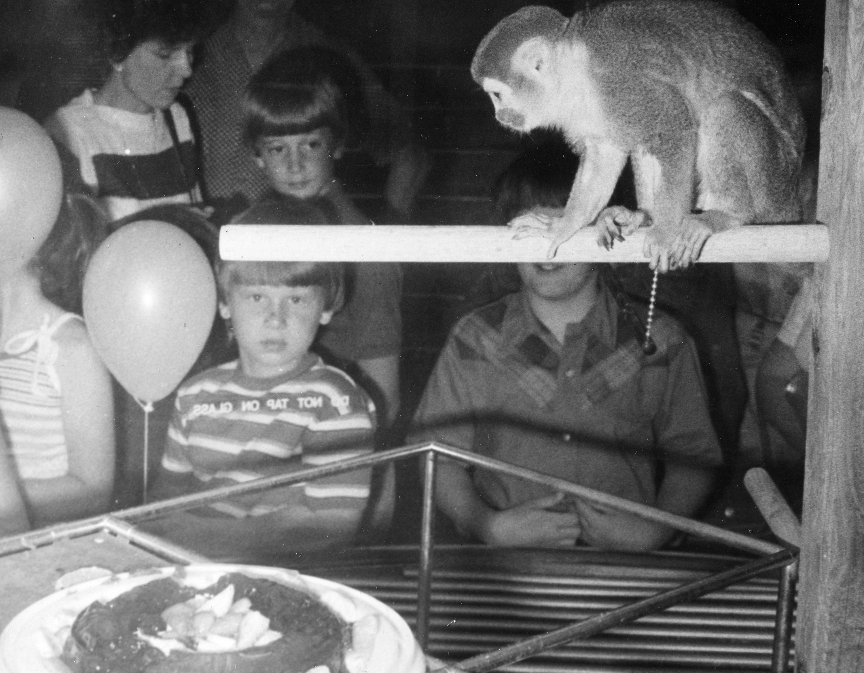 Miss Baker, a squirrel monkey who made a historical flight aboard the Jupiter (AM-18) in May 1958, is seen here in her viewing area where she resided at the Alabama Space and Rocket Center.